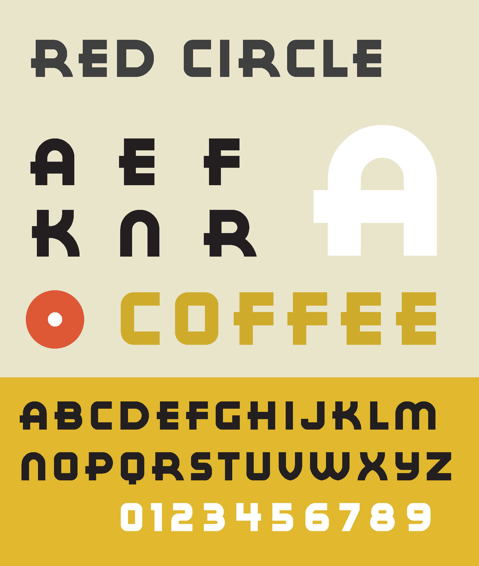 Specimen of the typeface Red Circle